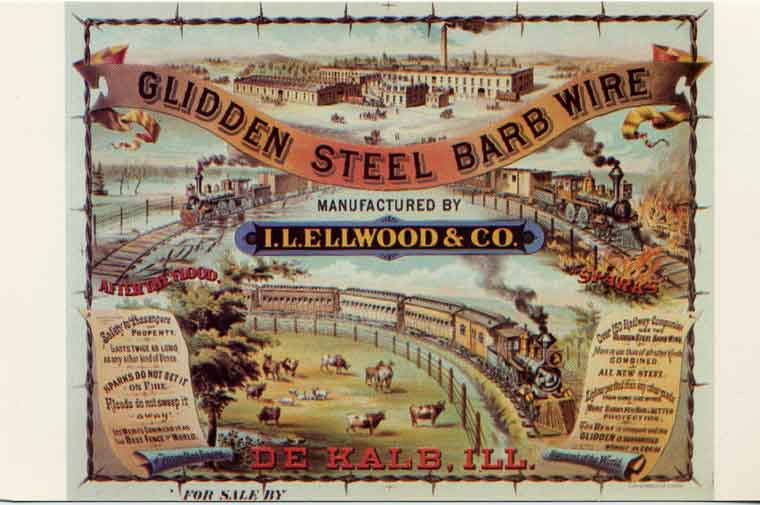 Glidden Barbed Wire manufactured by Isaac L. Ellwood in DeKalb, Ill. Presumed 1880s advertising poster.